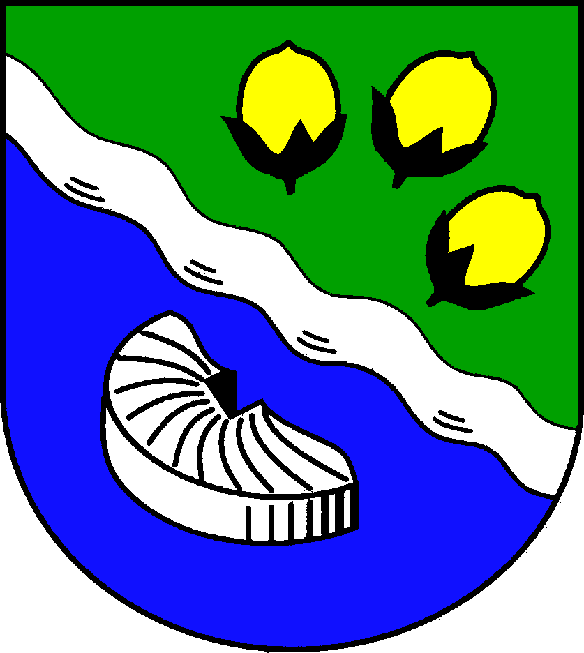 Coat of arms of the municipality Nützen in Schleswig-Holstein, Germany.